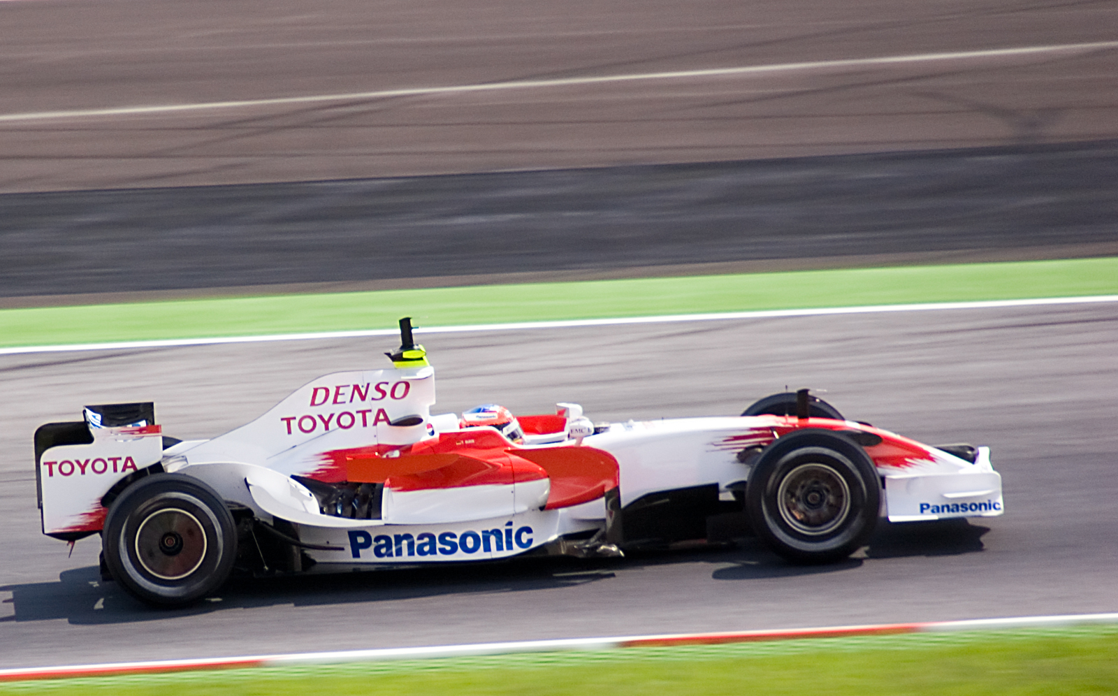 Timo Glock testing for Toyota F1 at the Circuit de Catalunya in June 2008.